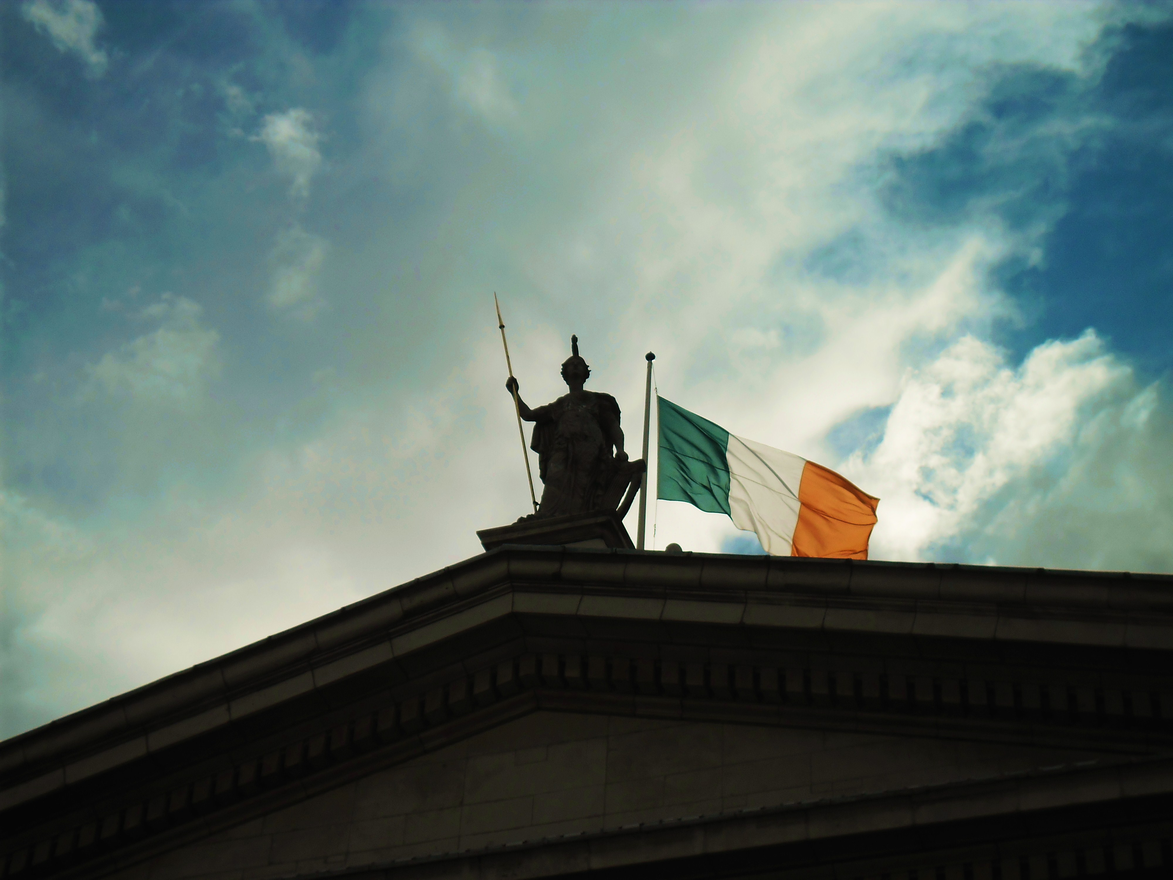 Ireland flag in Dublin